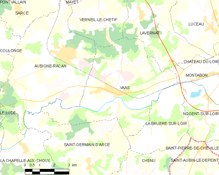 Map of French municipality